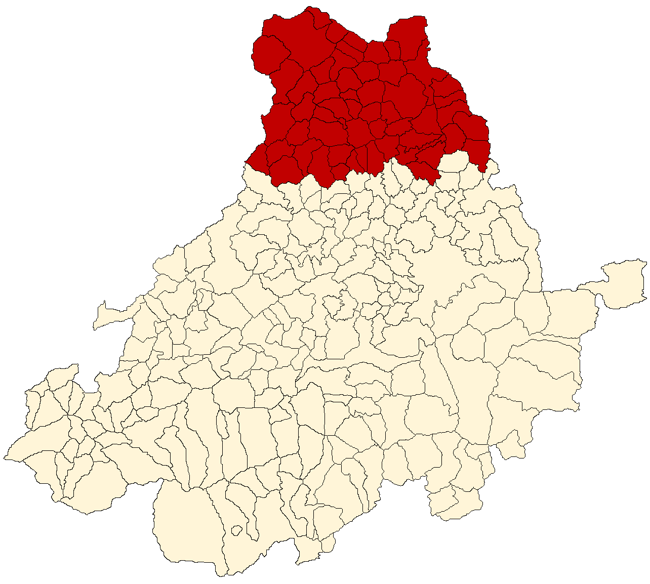 Map of region of Arévalo